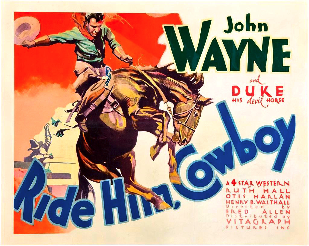 Poster for the 1932 film Ride Him, Cowboy. The item has no copyright markings on it as can be seen in the links above.